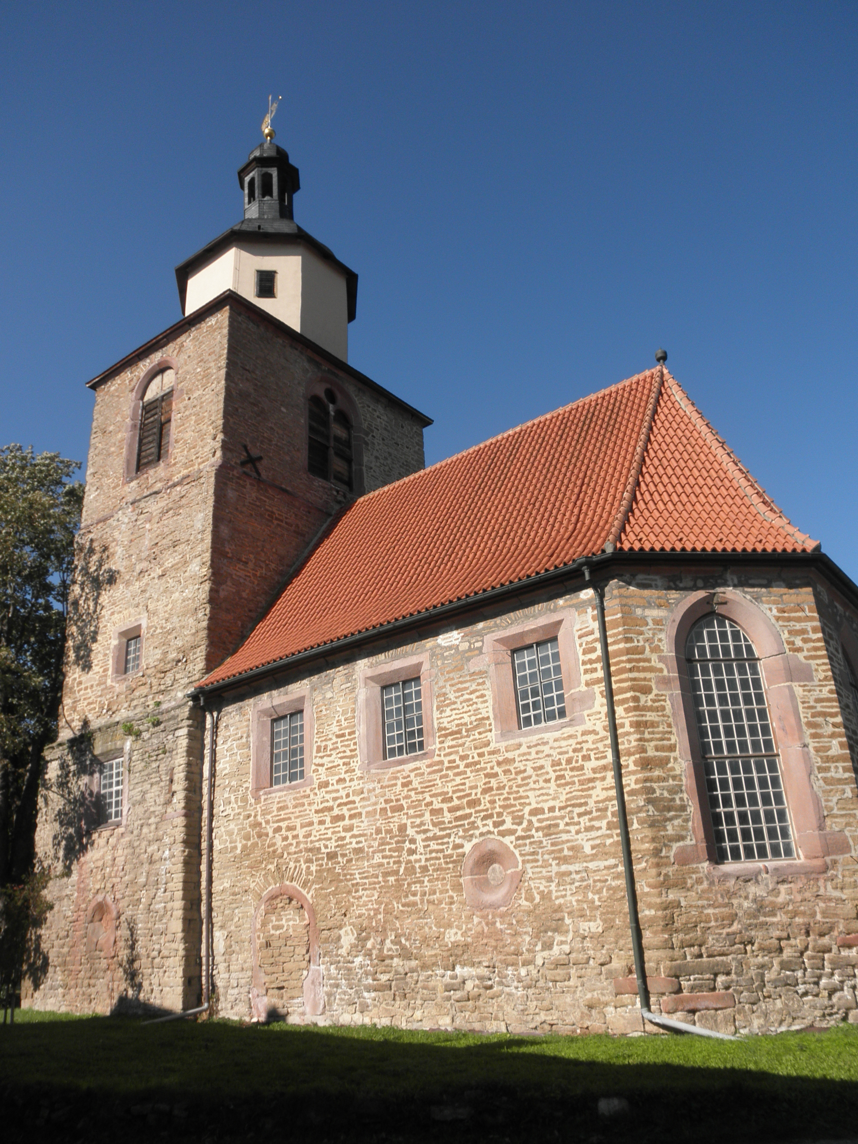 Church in Kleinwerther in Thuringia